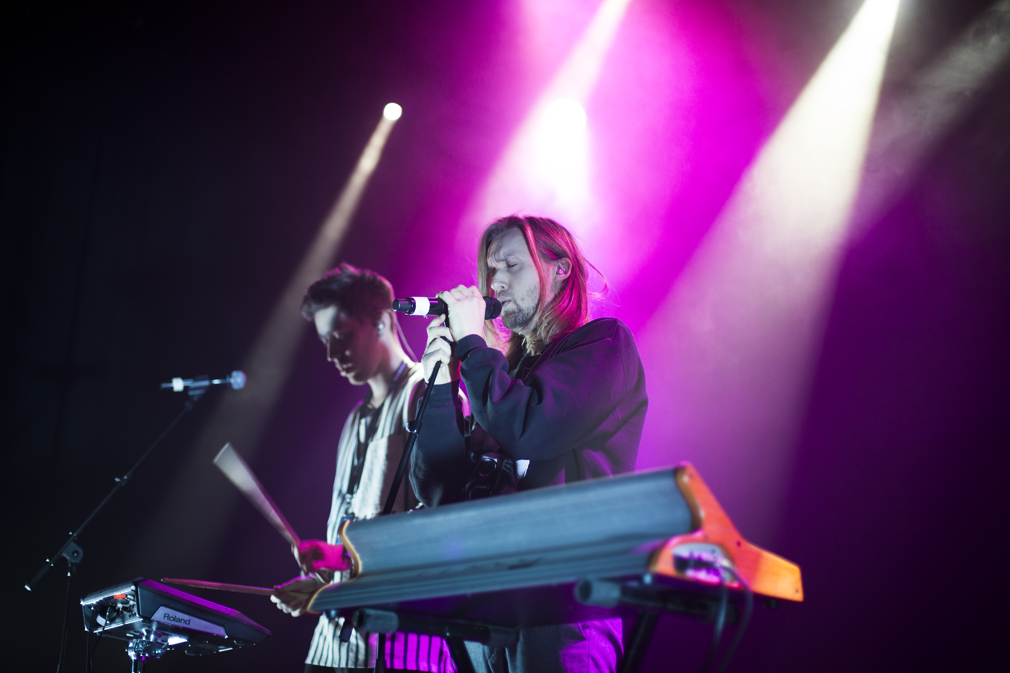 Skinny Days performing at Trondheim Calling